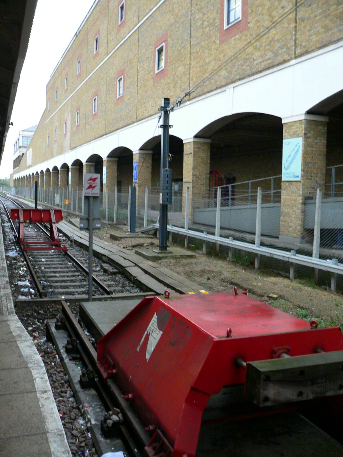 The buffer stops of the Tramlink platform, and mainline bay platform 9 at Wimbledon station in South London. Although both systems use 750v DC electrification, powere to Tramlink trams is supplied through overheard cantenary wires, while the mainline trains use an electrified third rail.